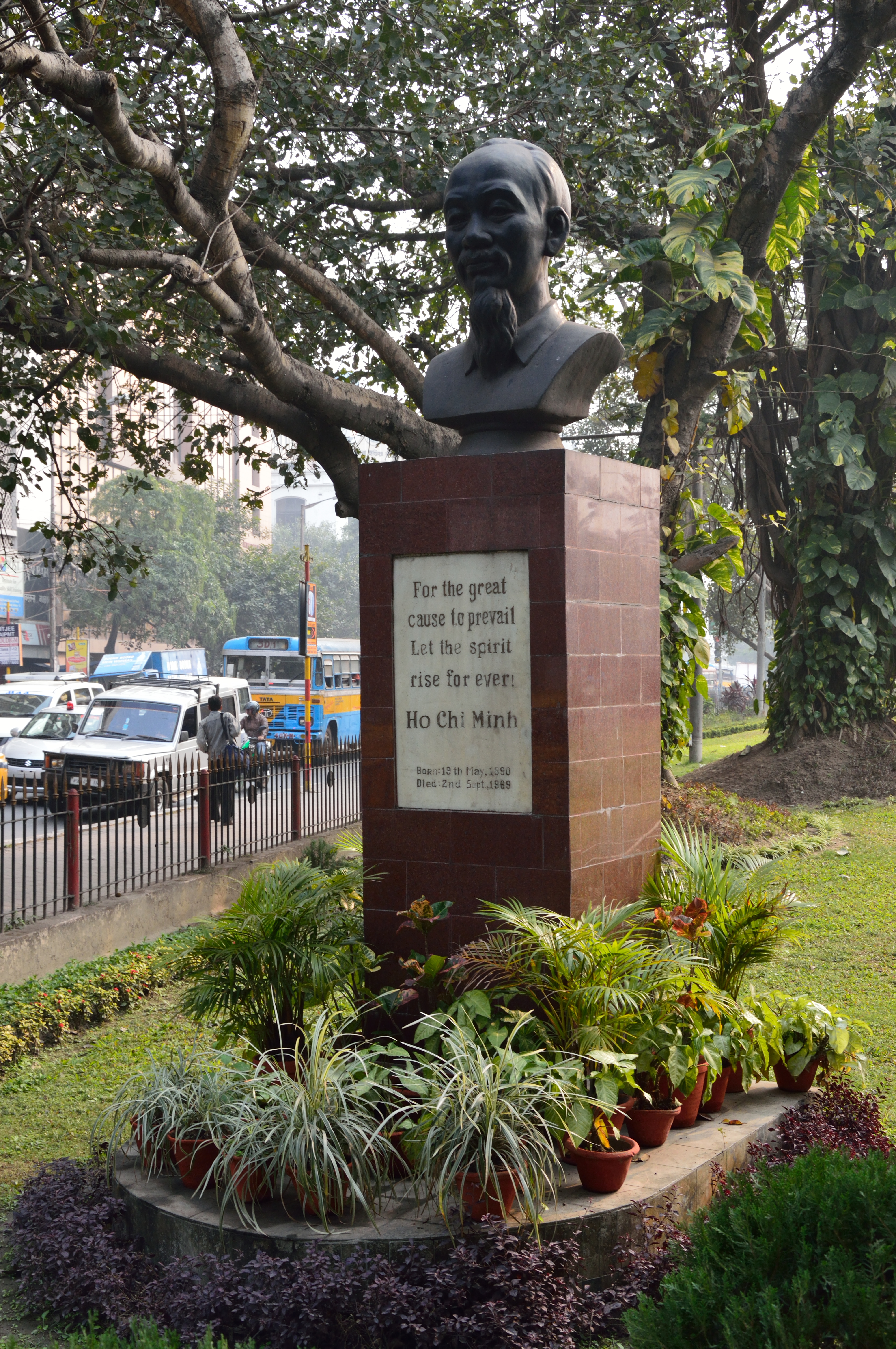 Photographs in Kolkata.